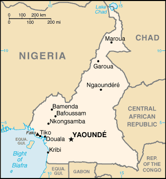 Map of Cameroon.